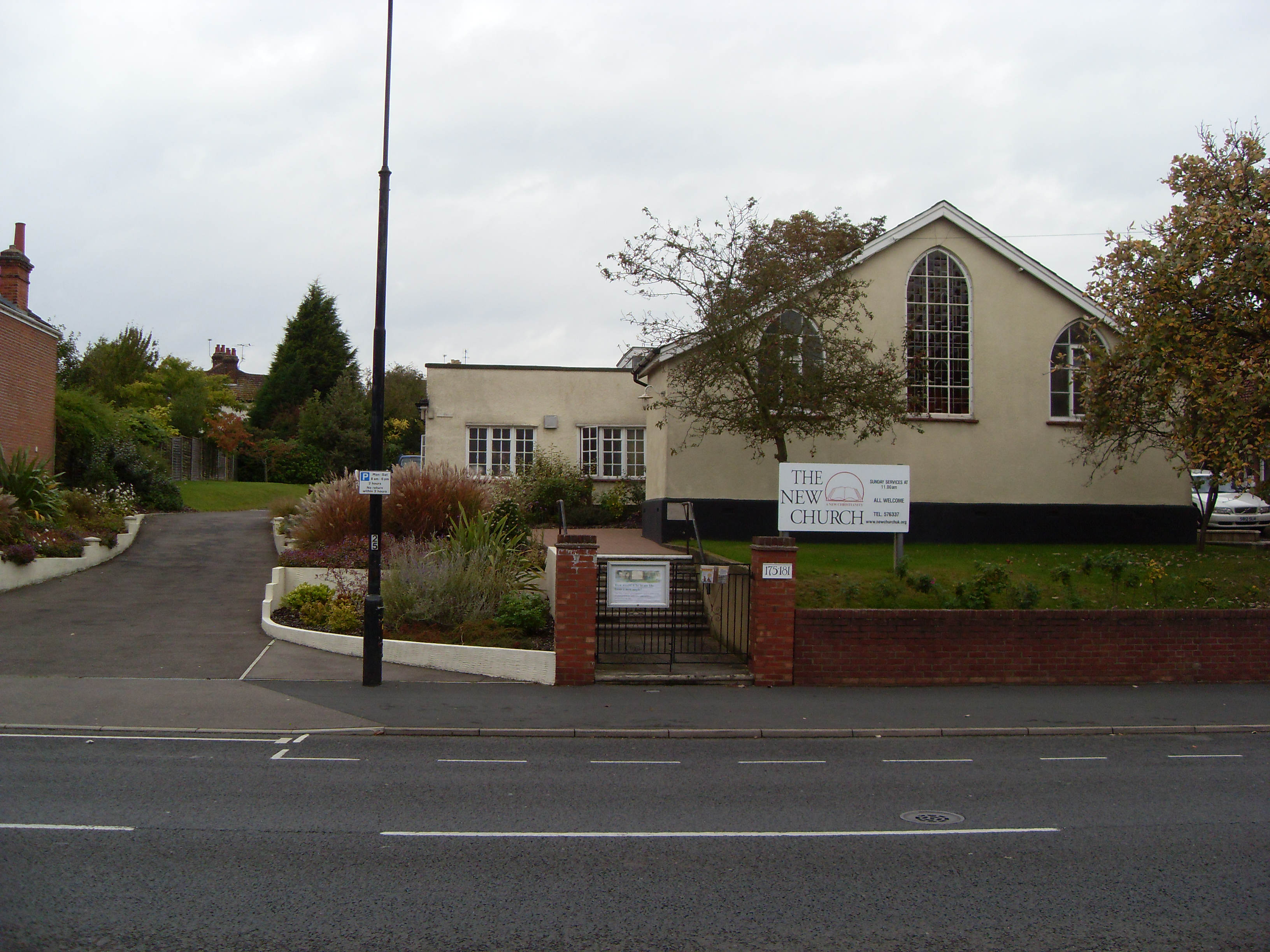 Colchester New Church, 175-181 Maldon Road, Colchester, UK. This building was dedicated in 1924.